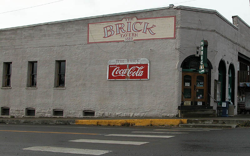 Roslyn, Washington